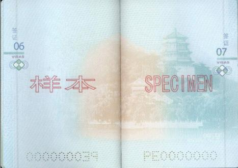 Visa Page of the Chinese Service E-Passport.